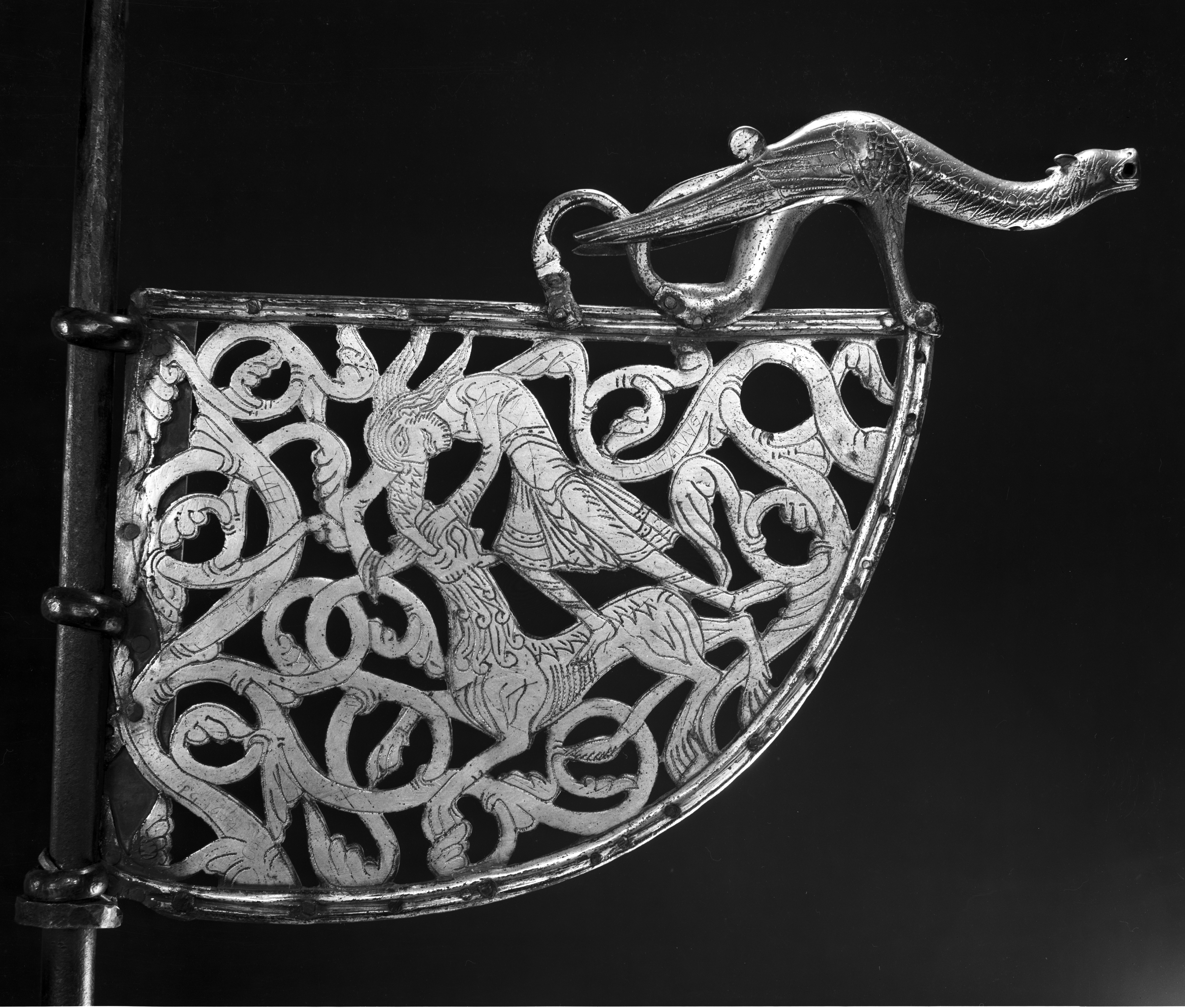 Weather vane from Tingelstad Old Church. 12th century © 2016 Kulturhistorisk museum, UiO / CC BY-SA 4.0